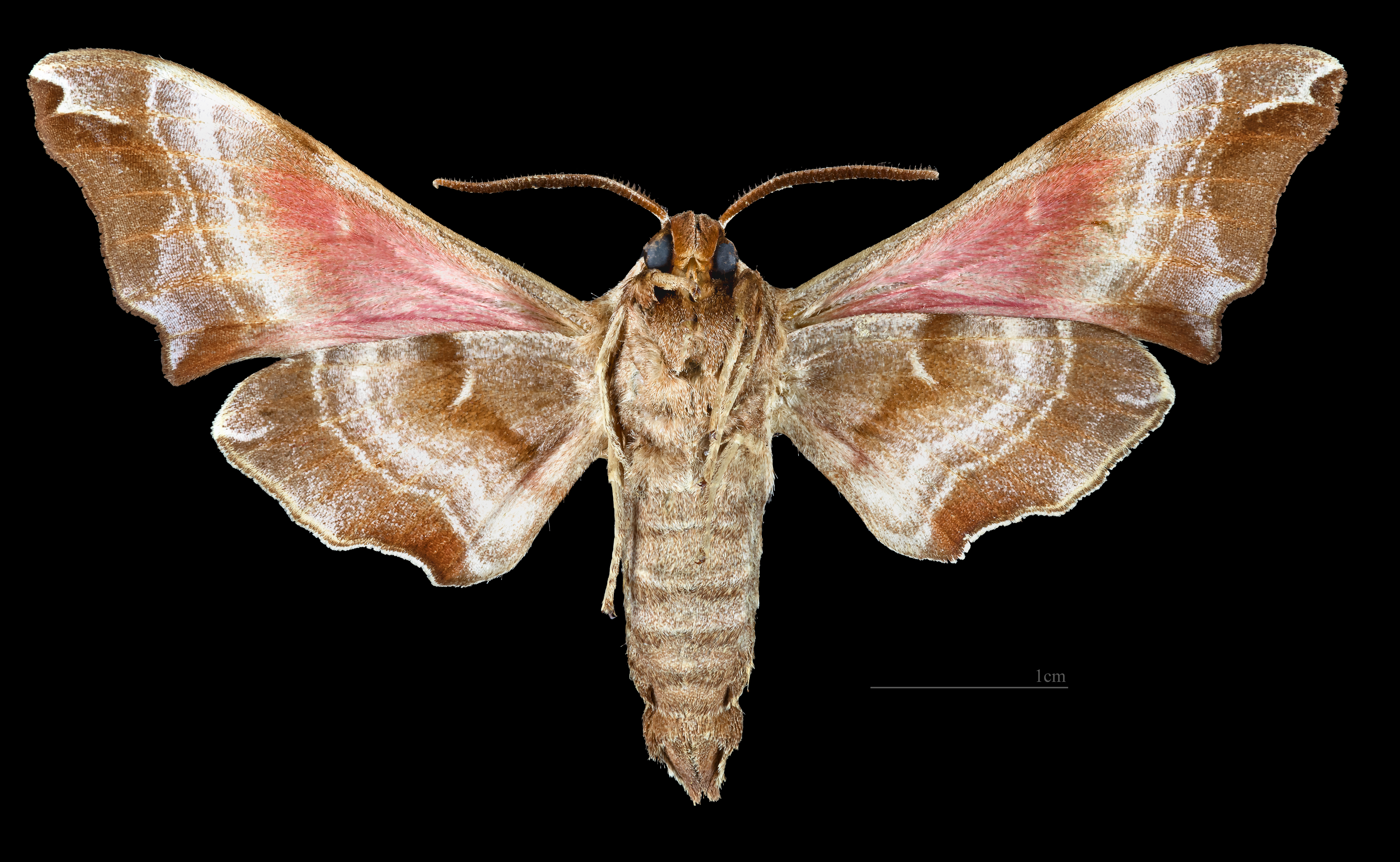 Smerinthus kindermannii - △ Ventral side Collection of the Mathematician Laurent Schwartz